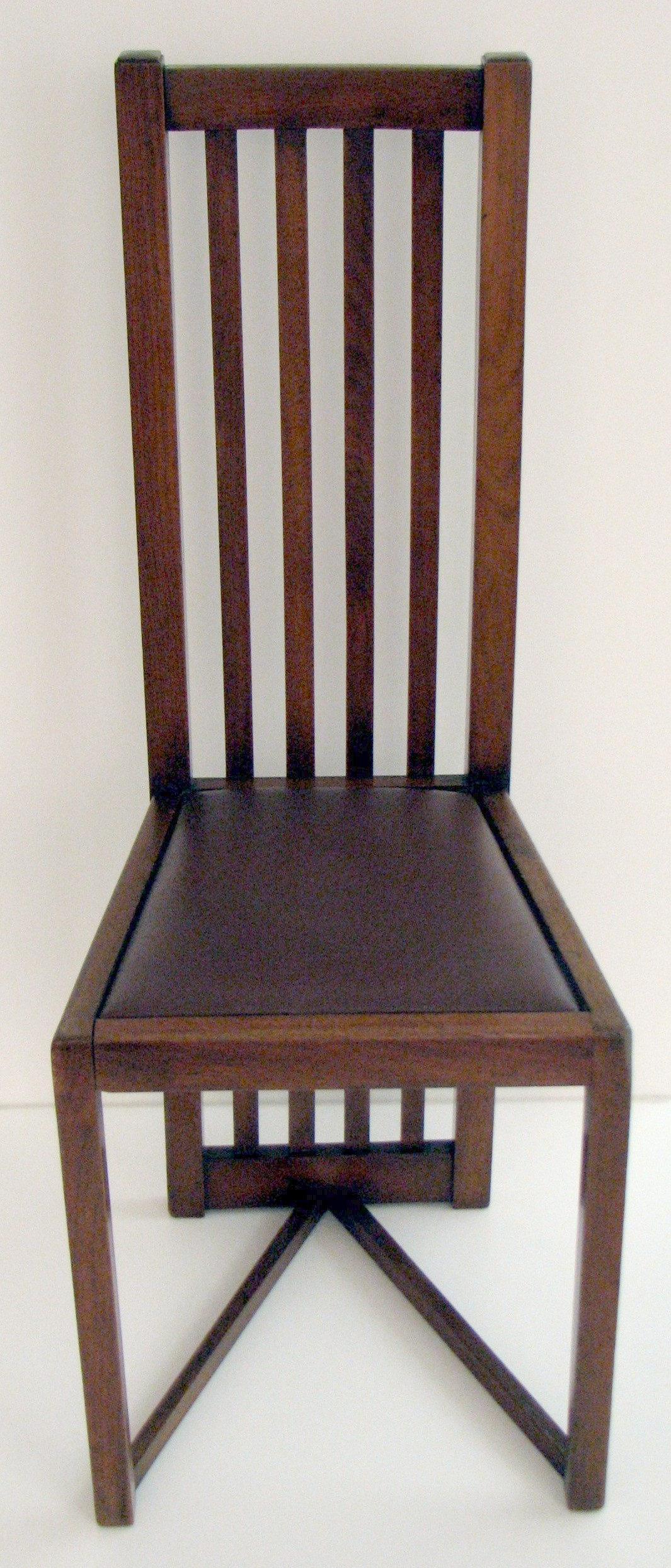 Chair by Charles Rennie Mackintosh, from 1917, for the "Dug Out" tea rooms in Glasgow, UK. Produced probably by Alex Martin, Glasgow, UK. Exhibition in the Pinakothek der Moderne, München.